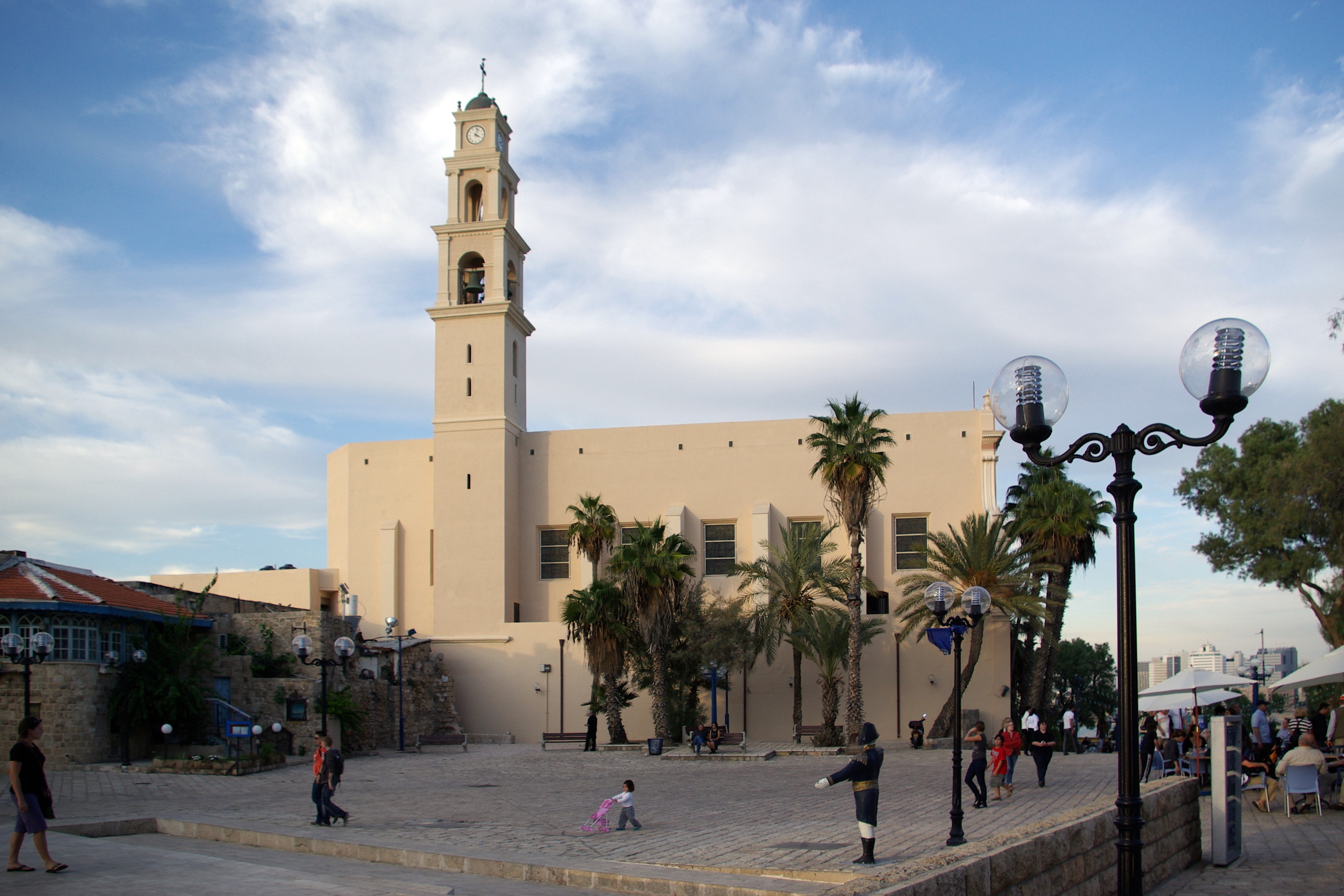 Tel Aviv Yaffo, St. Peters church